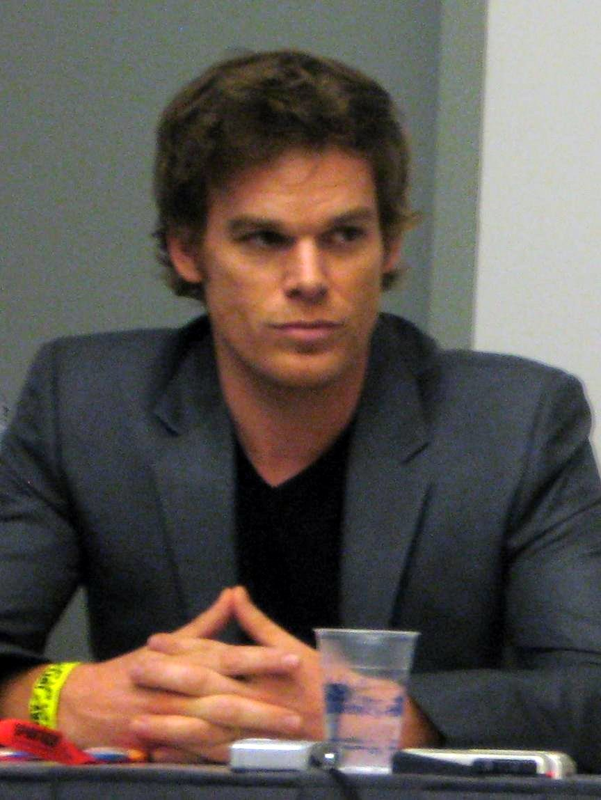 Actor Michael C. Hall – Comic-Con 2009 - Dexter press room - San Diego, Calif. - July 23, 2009.